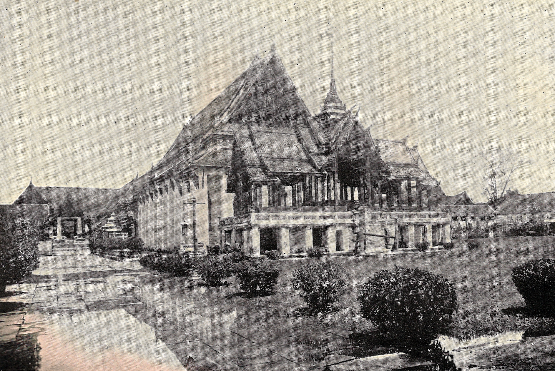 Photograph of the Front Palace (Wang Na), the residence of the Second King Siam circa 1890. Now the Bangkok National Museum.